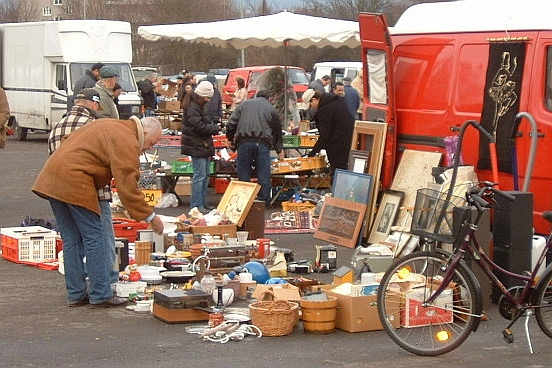 A typical flea market shop, in Germany